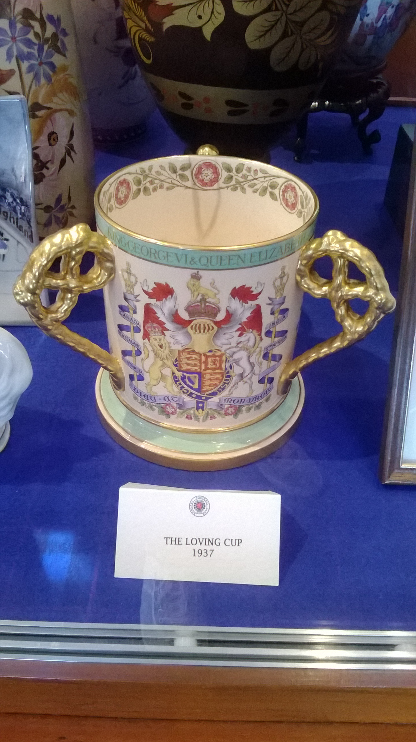 Loving Cup ceremony occurs on the first home match at Rangers FC Ibrox stadium in January, toasting the new year.